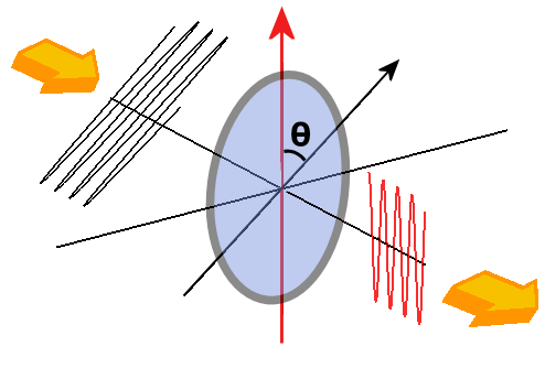 An illustration of Malus' law by Fffred. Used in the french wikipedia in loi de Malus.